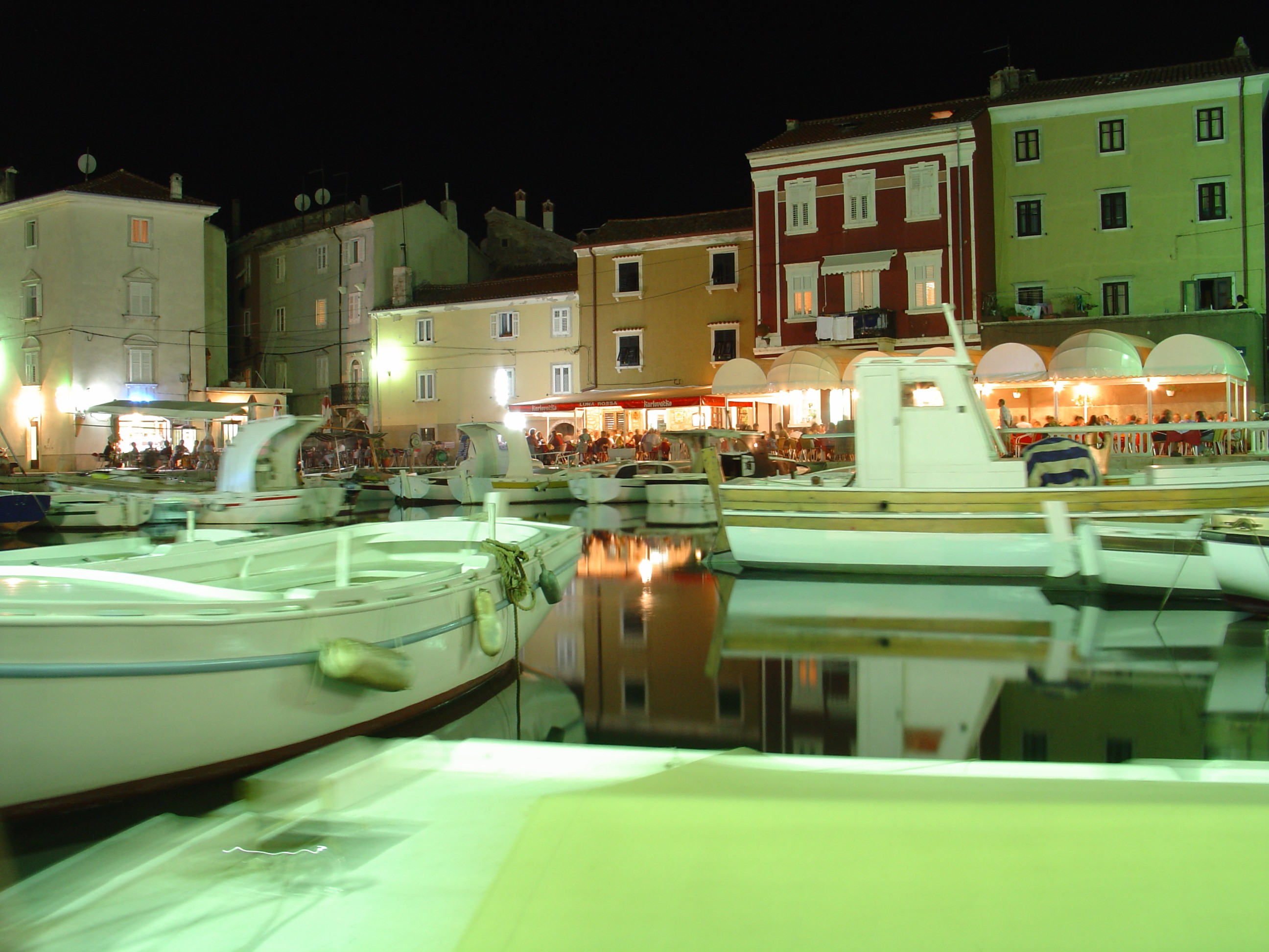 Cres: Dock at night.